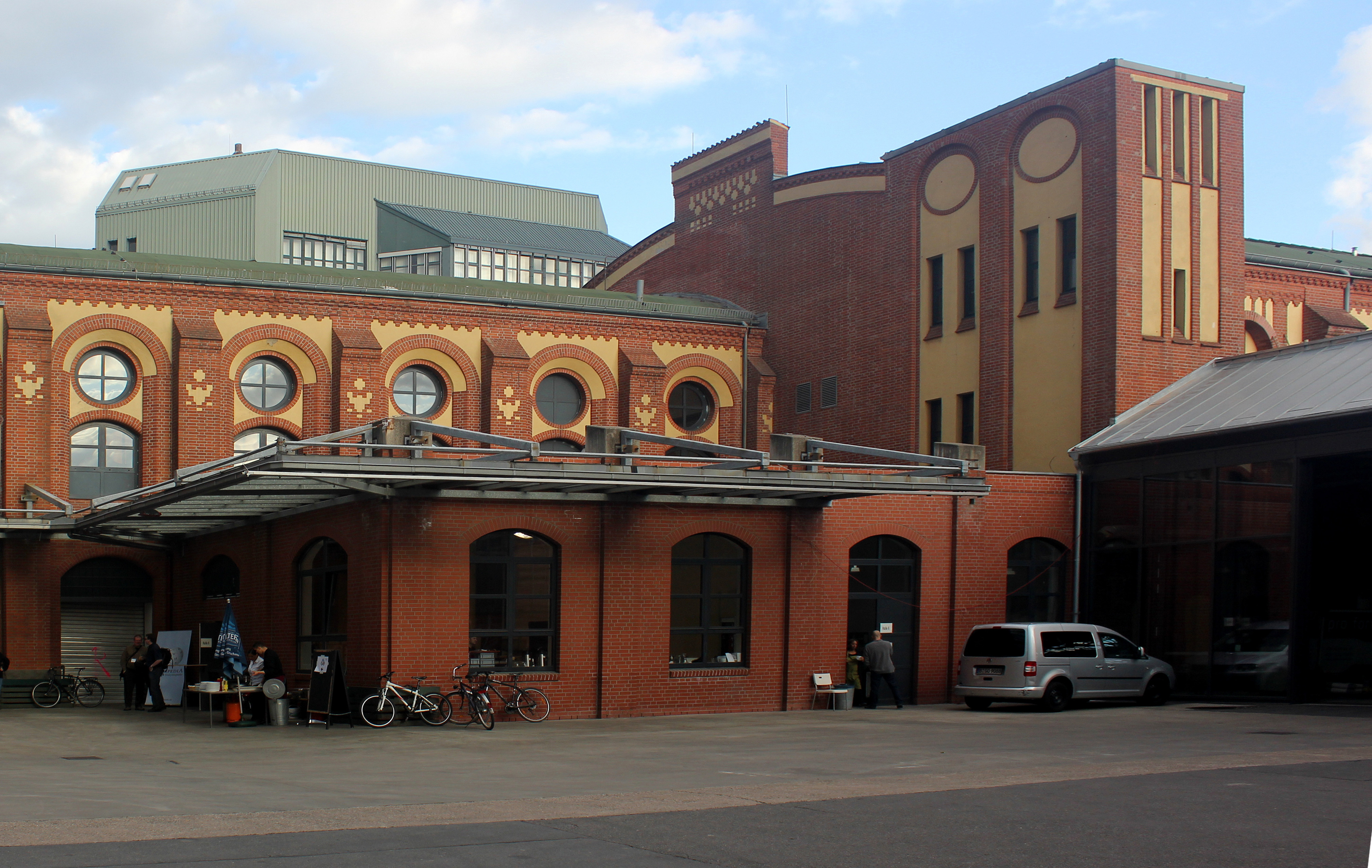 From the 1875, Dresden train station was performing passenger traffic between Berlin and Dresden for the following seven years. Also, Prague and Vienna can be reached by destination coach form this station. In 1882, all the operations was terminated due to tensions between the Prussian and the Saxon railway administration. The main building was demolition in 1887. Now this place is known as STATION-Berlin.